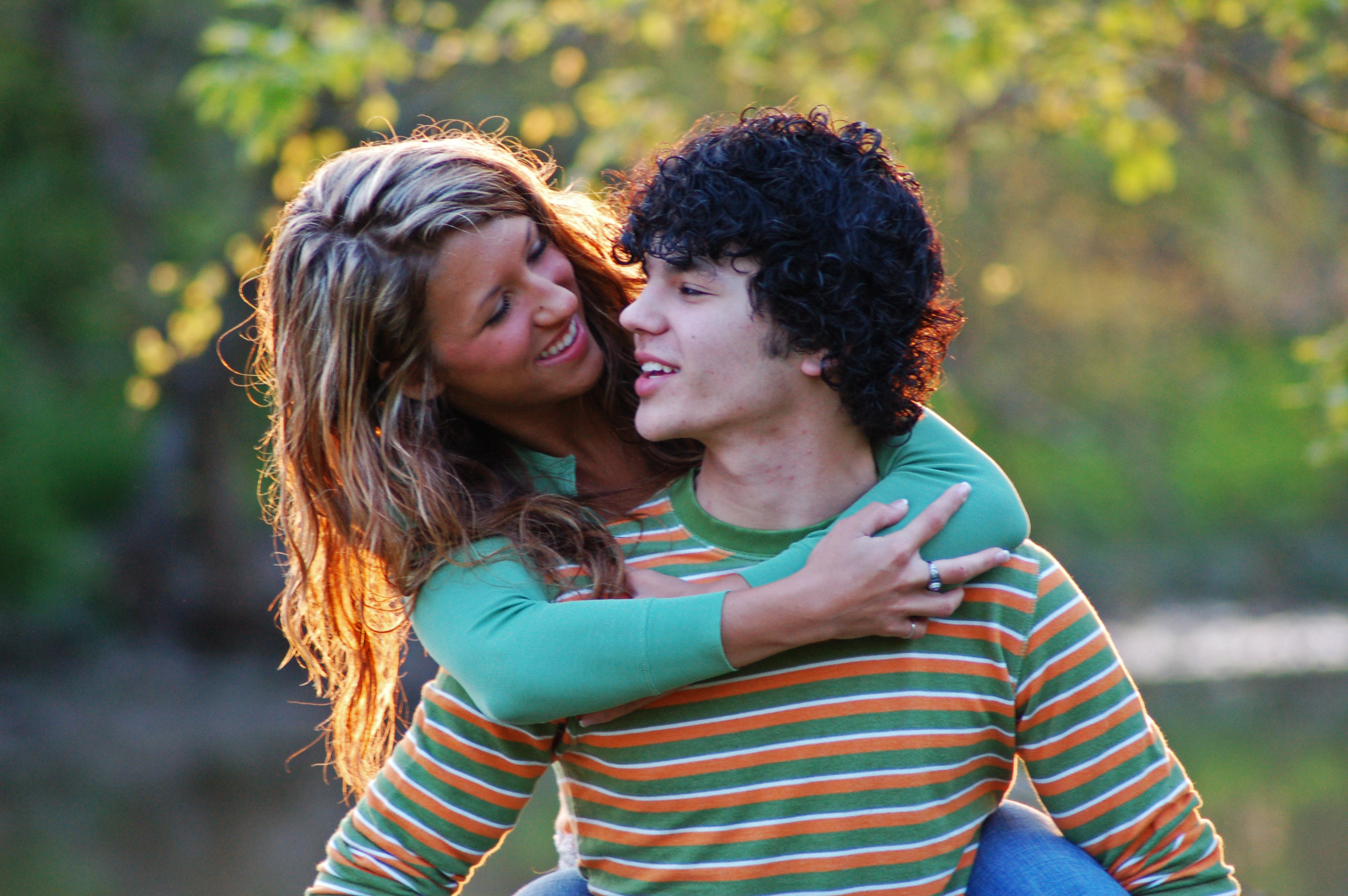 A young woman and man embracing while outdoors.